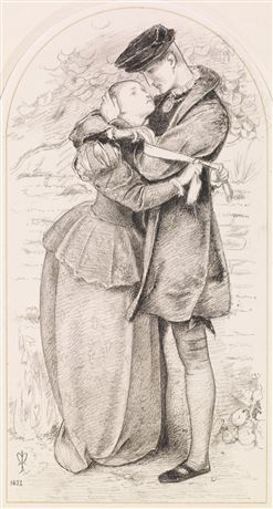 A Huguenot, study